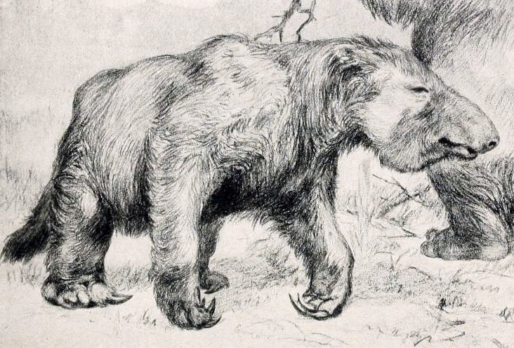 Crop of file in filename